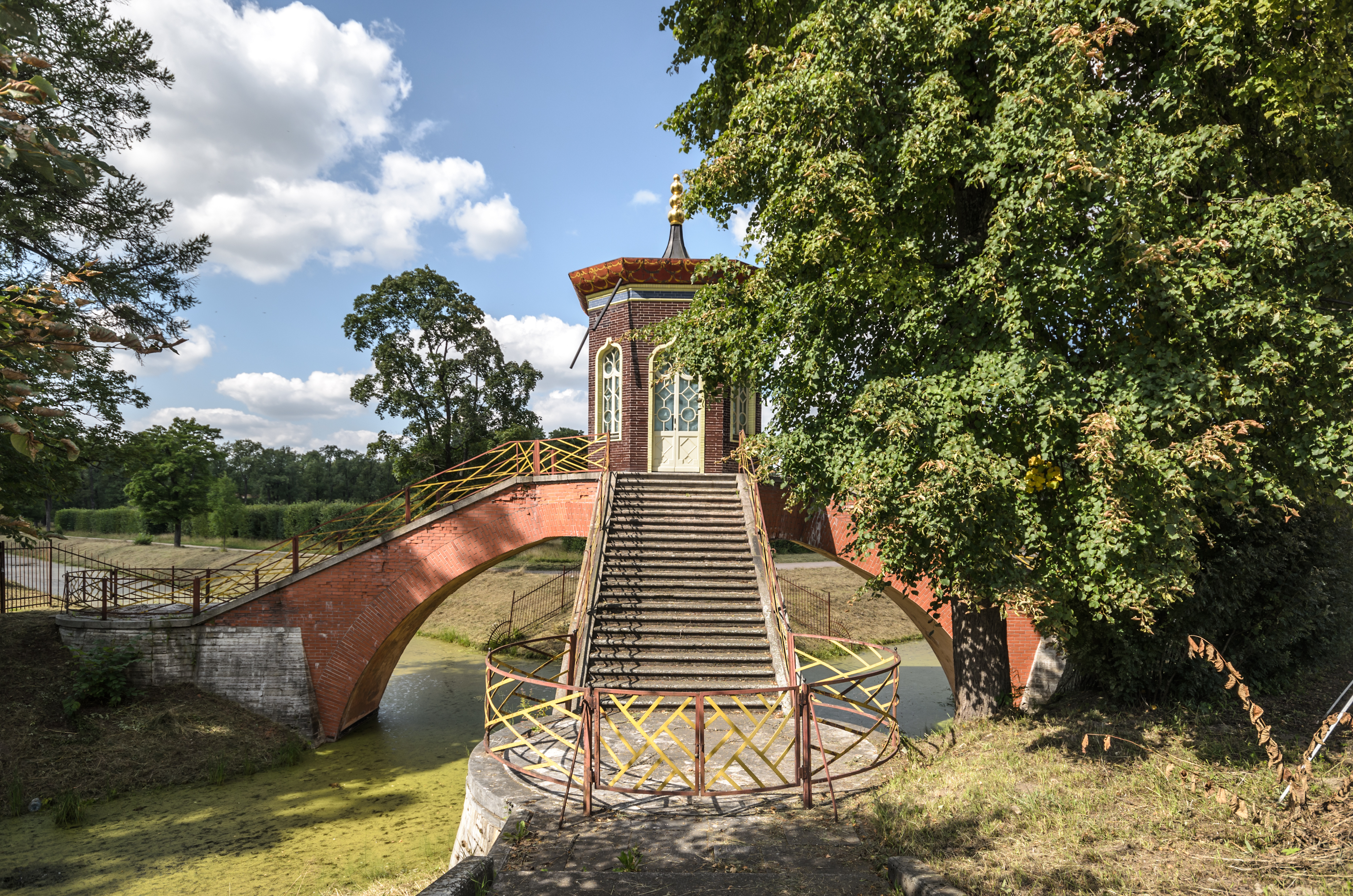 Crusade Bridge in Alexandrovsky Park of Tsarskoe Selo